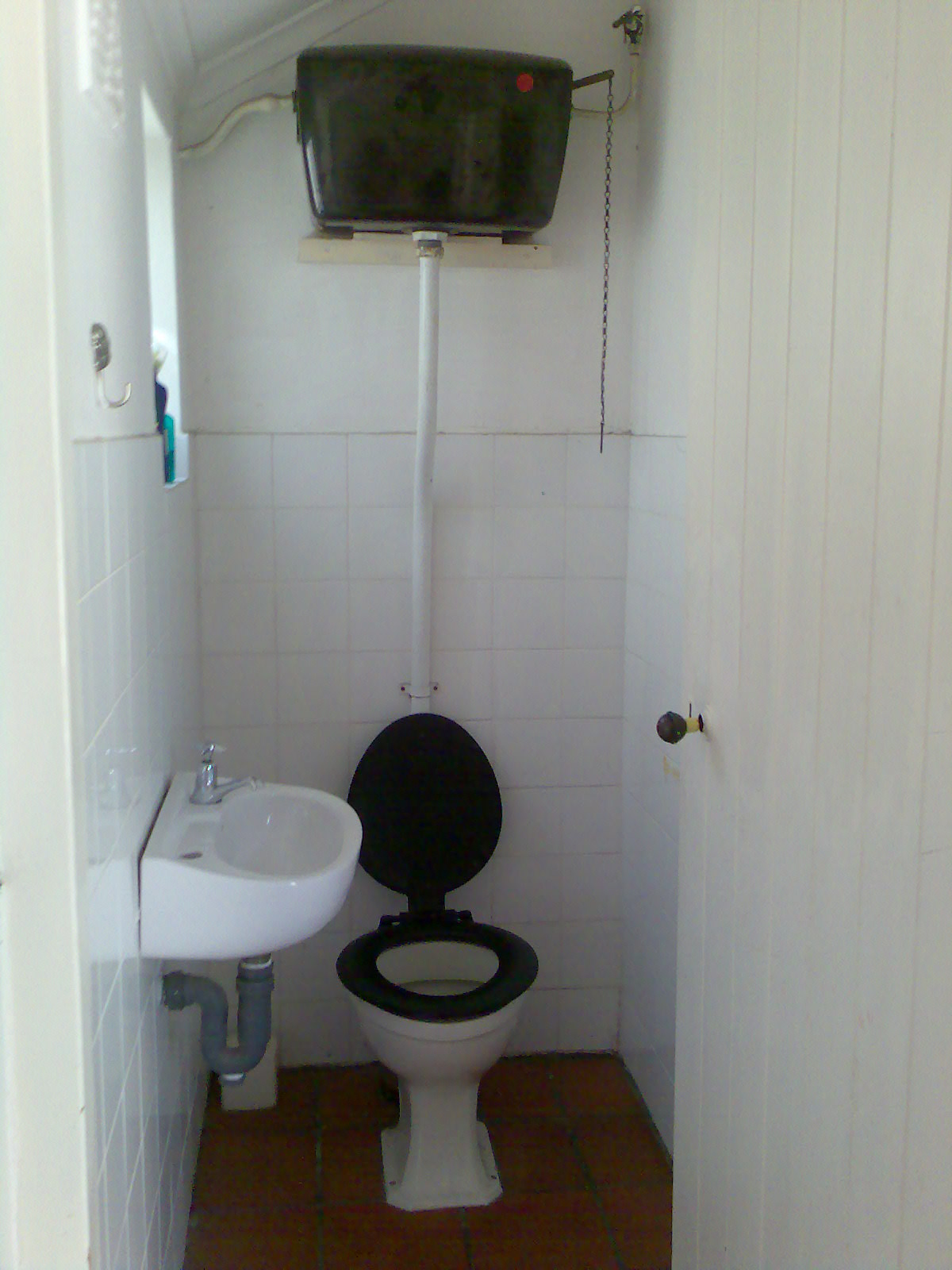 Author: Gregorydavid 20:13, 10 January 2007 (UTC)